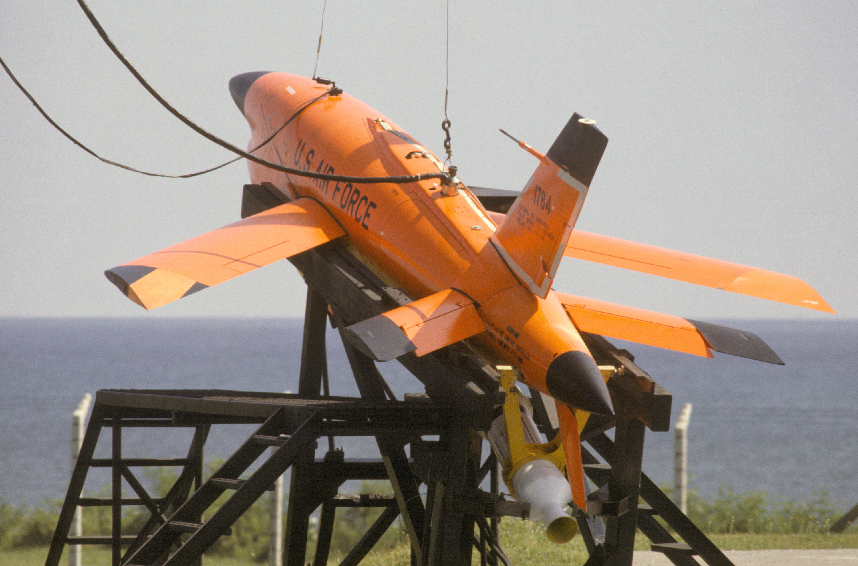 A BQM-34 Firebee I remotely piloted vehicle on stand prior to launch.